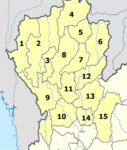 Northern region with 15 provinces according to TMD